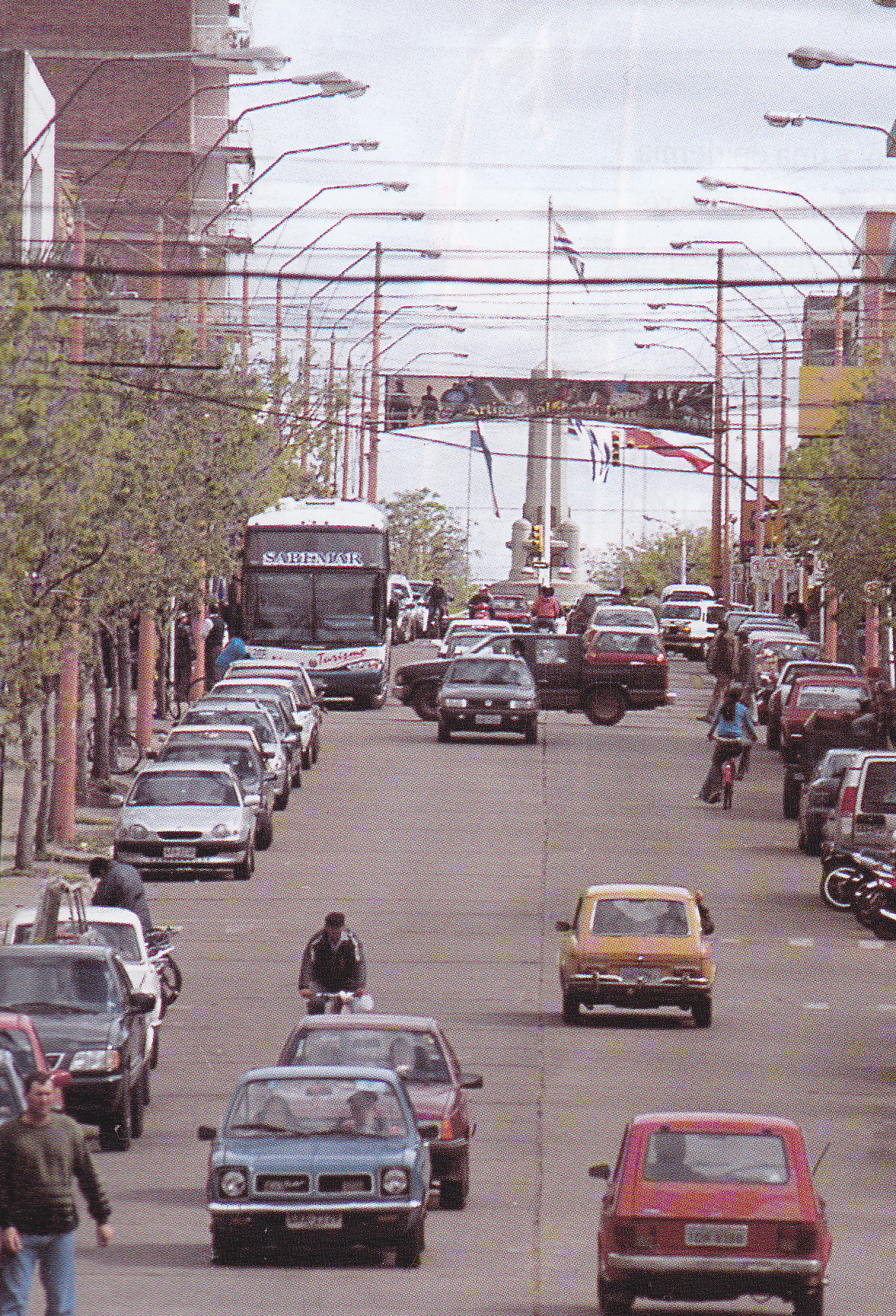 Lecueder Artigas